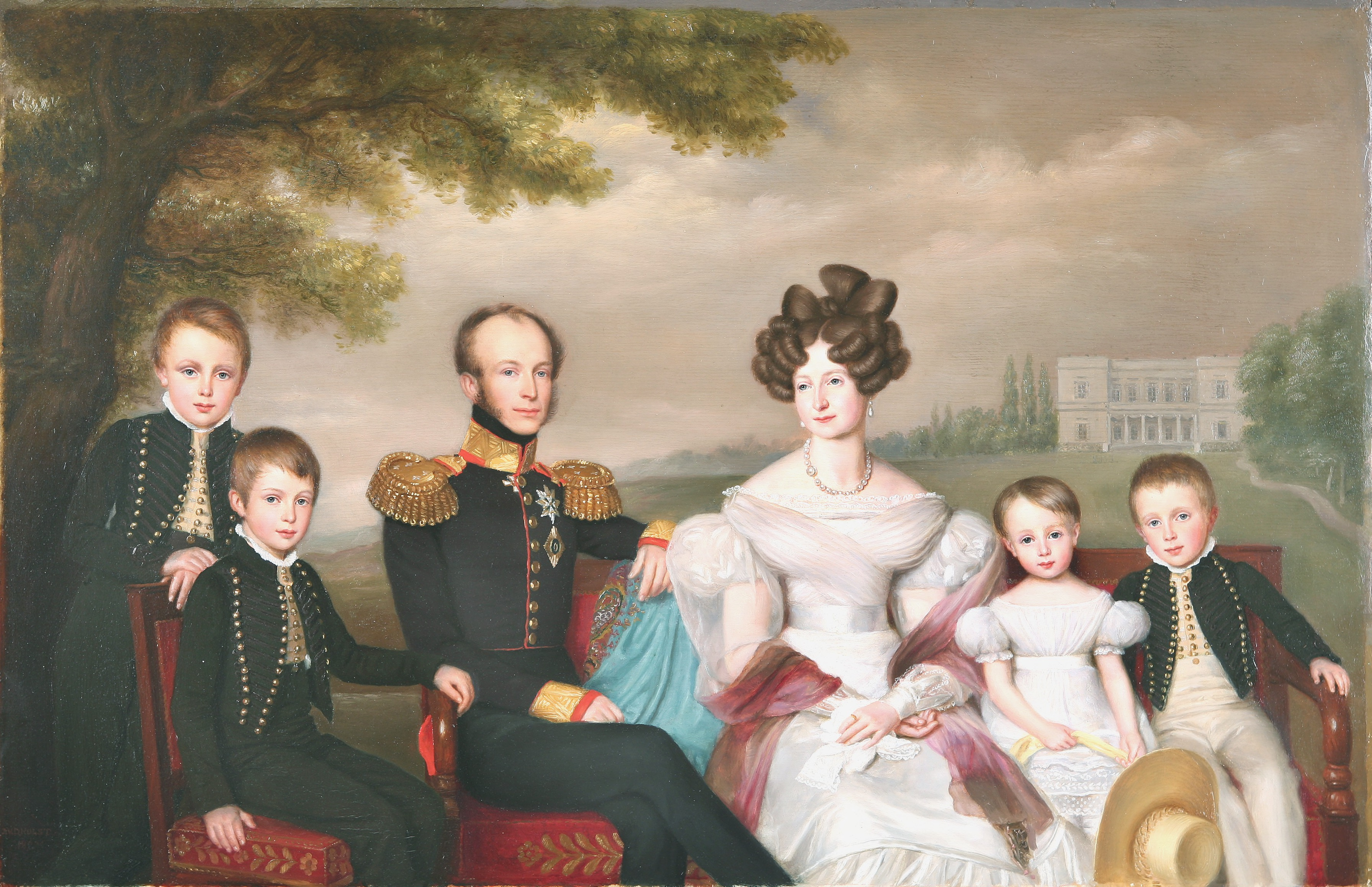 King William II with his family. From left to right: Willem III (1817–1890), Alexander (1818–1848), Willem II (1792–1849), Anna Paulovna (1795–1865), Sophie (1824–1897) and Hendrik (1820–1879).